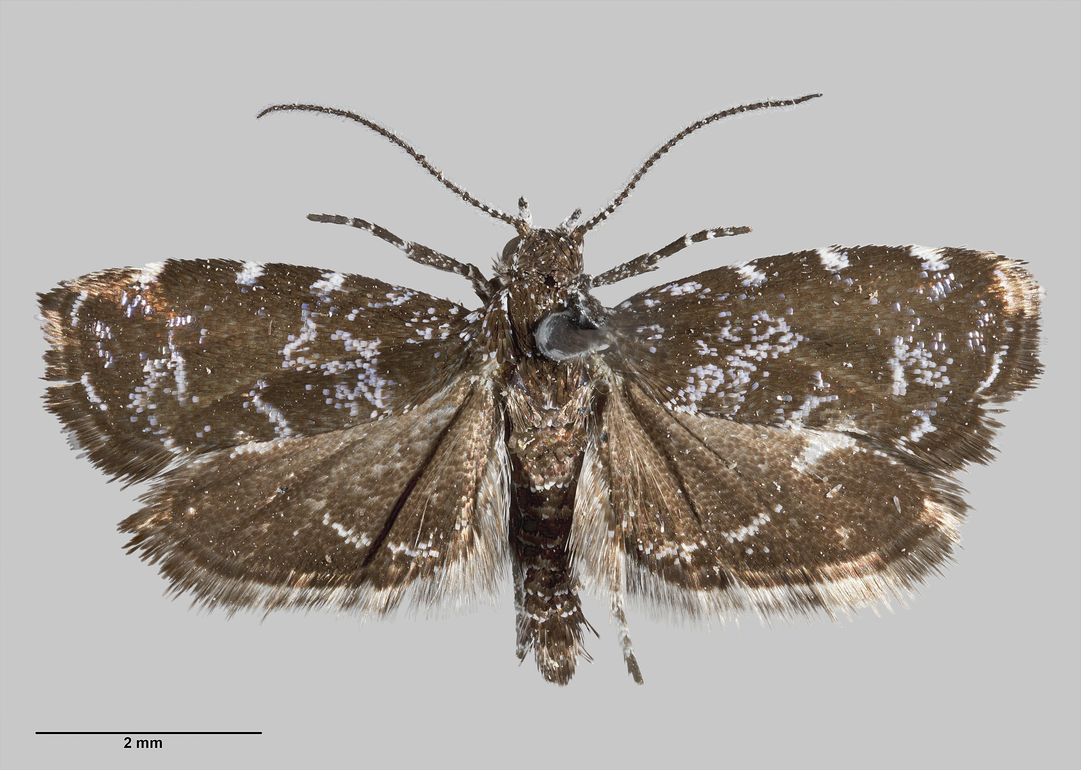 Asterivora chatuidea (Clarke, 1926) Male syntype specimen held at Auckland Museum licensed under CC BY 4.0.